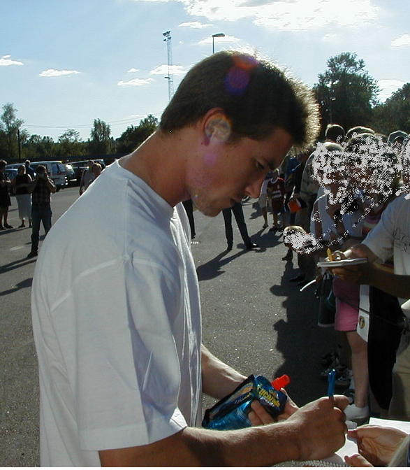 Leeds United's footballer Harry Kewell writing autographs during a pre-season friendly game against Jönköping Södra, Sweden